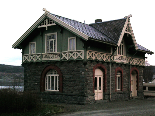 Langstein railway station, Nordlandsbanen. Architect:Paul Due. Protected by law 2002.